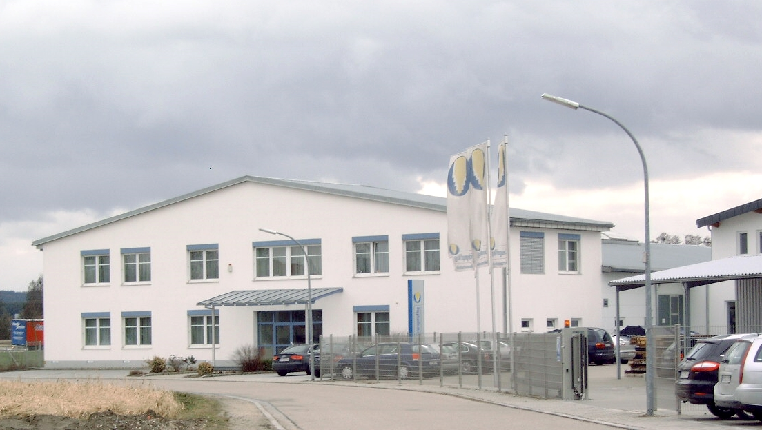 Headquarters of Scheugenpflug AG, Neustadt an der Donau, Bavaria, Germany